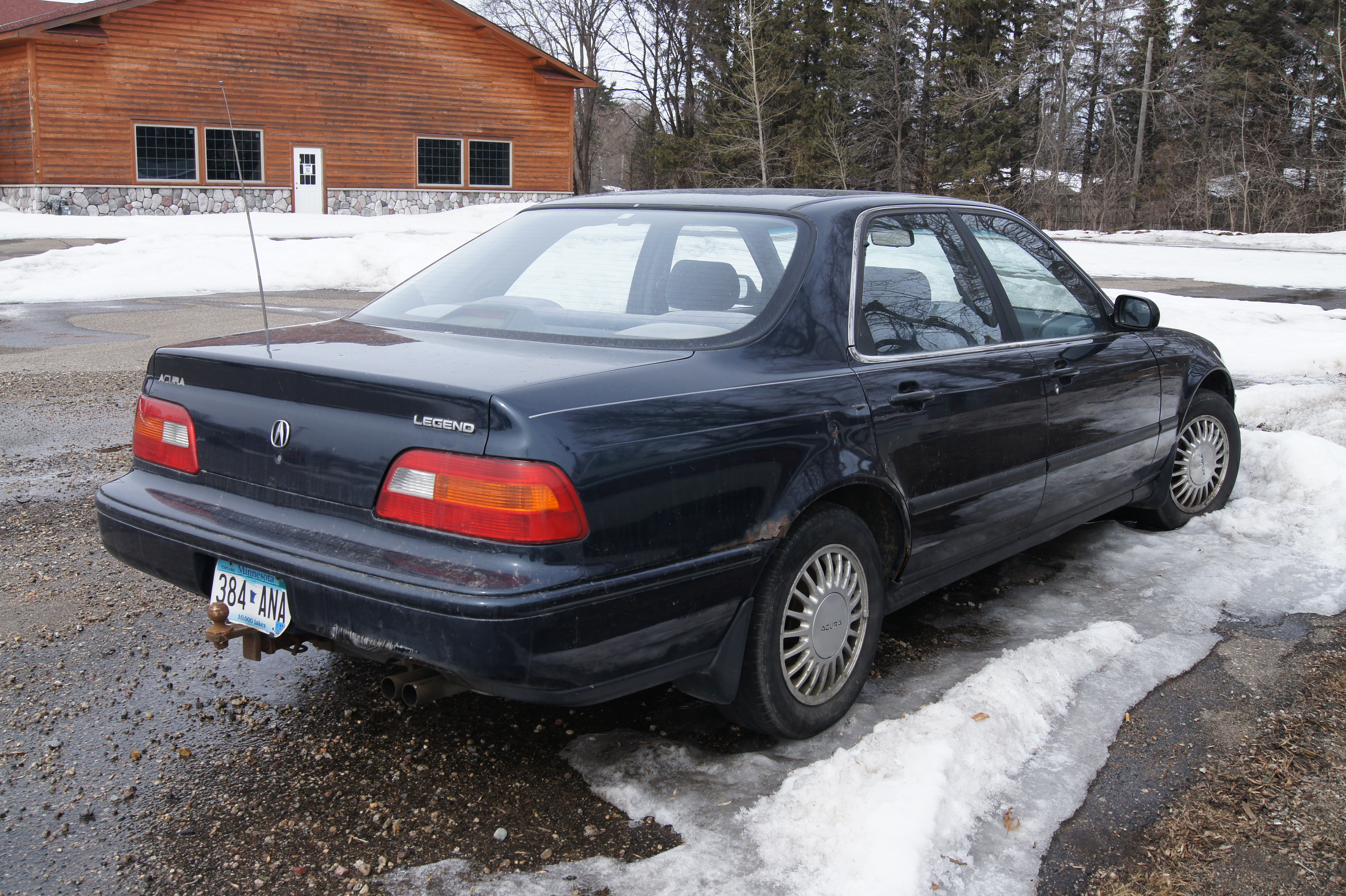 Follow this link for more car pictures